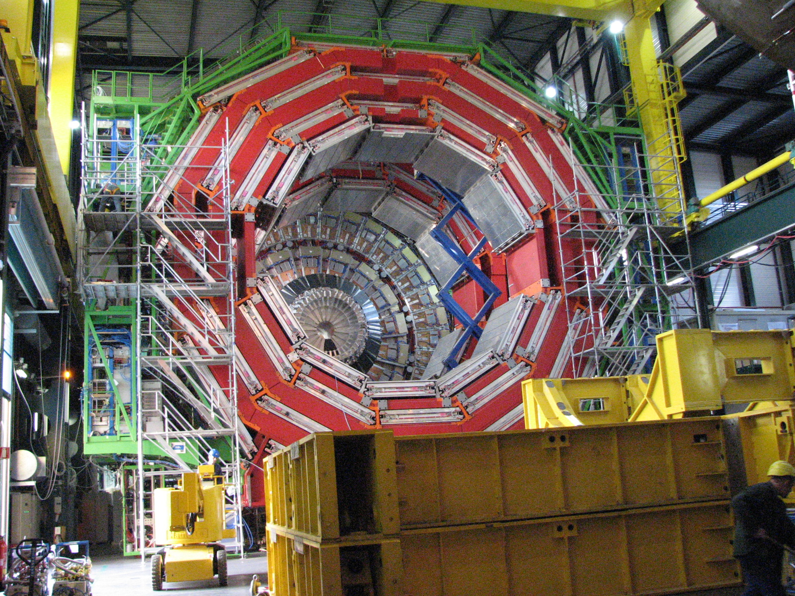 In the mounting hall at point 5. The endcap a the far end and two of the muon barrel wheels. Notice the gaps at 3 and 9 o'clock : that's where the crane is going to grab these 1000 ton pieces to lower them to the cavern, 100m below ground surface... More information and explanation at the beginning of the set